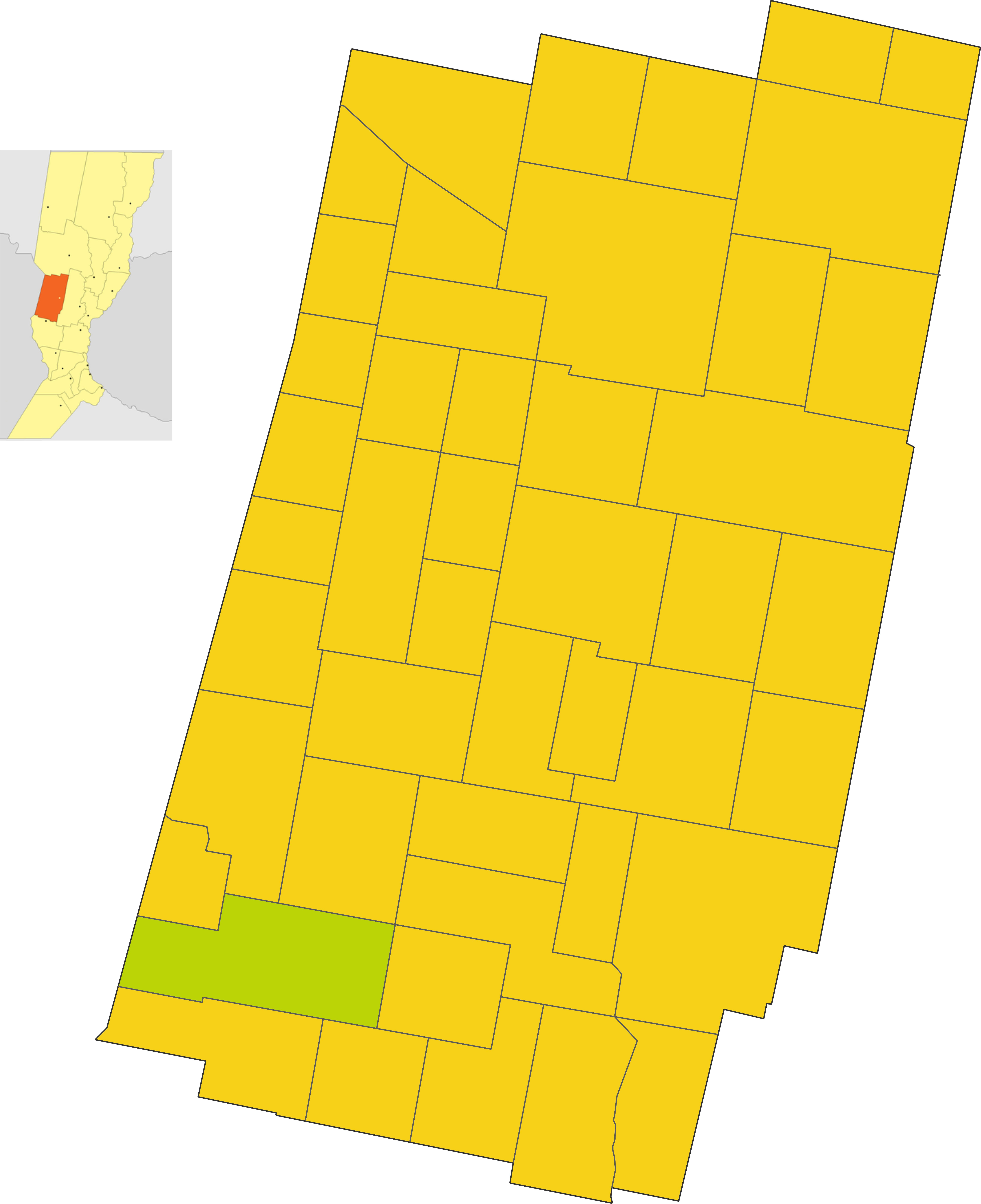 Map of the comuna de Zenon pereyra in Castellanos department, Santa Fe province, Argentina